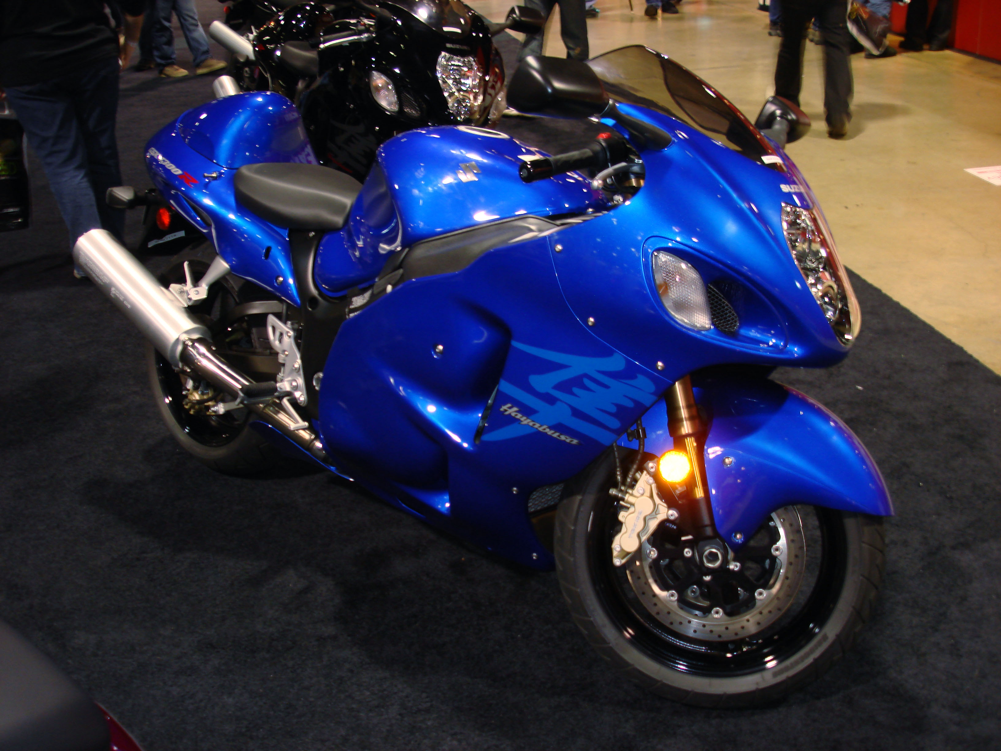 2007 Suzuki GSX1300R on display at the 2006 International Motorcycle Show in Long Beach, CA. Camera used was a Sony Cyber-shot DSC-W100.